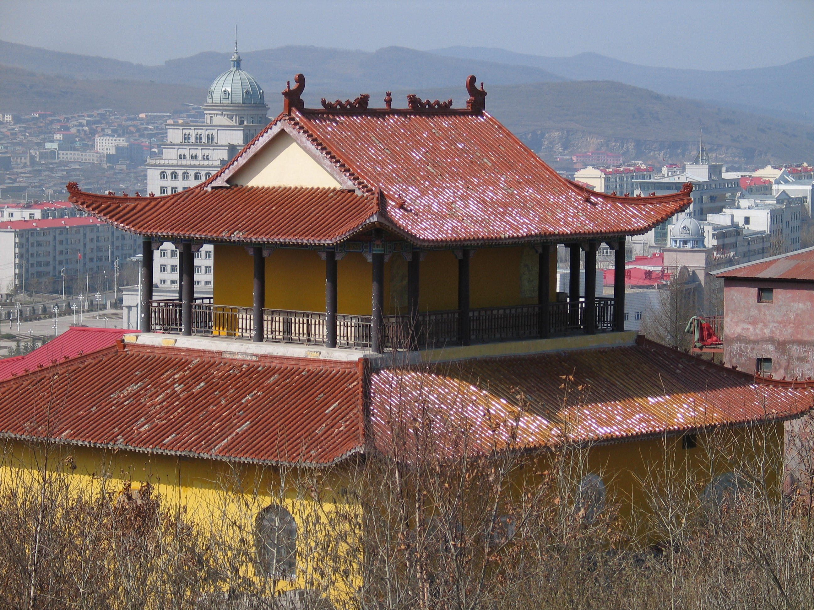 Suifenhe (view from the temple Guanlin)